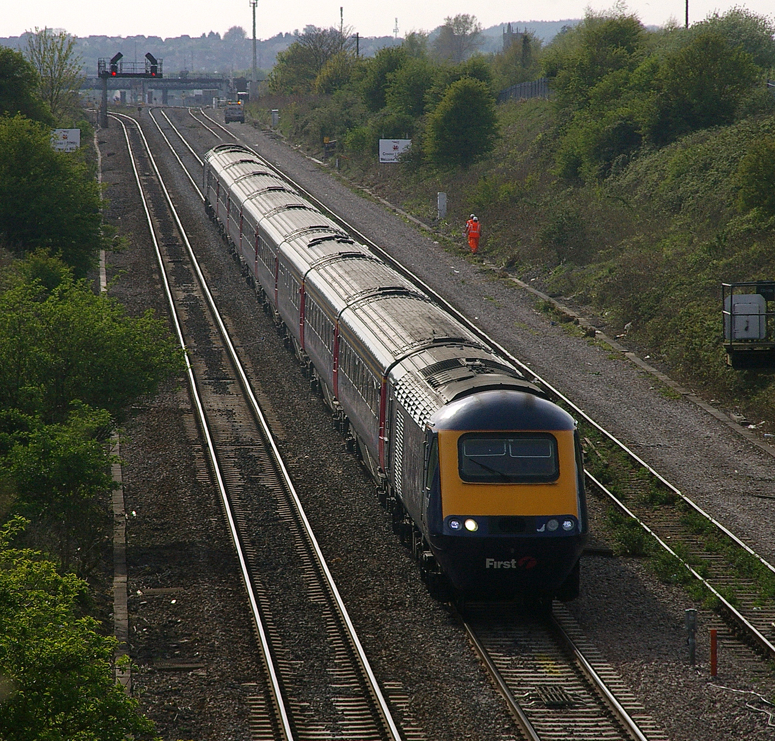 An Intercity 125 heads east into the Severn Tunnel, viewed from near Caldicot station.